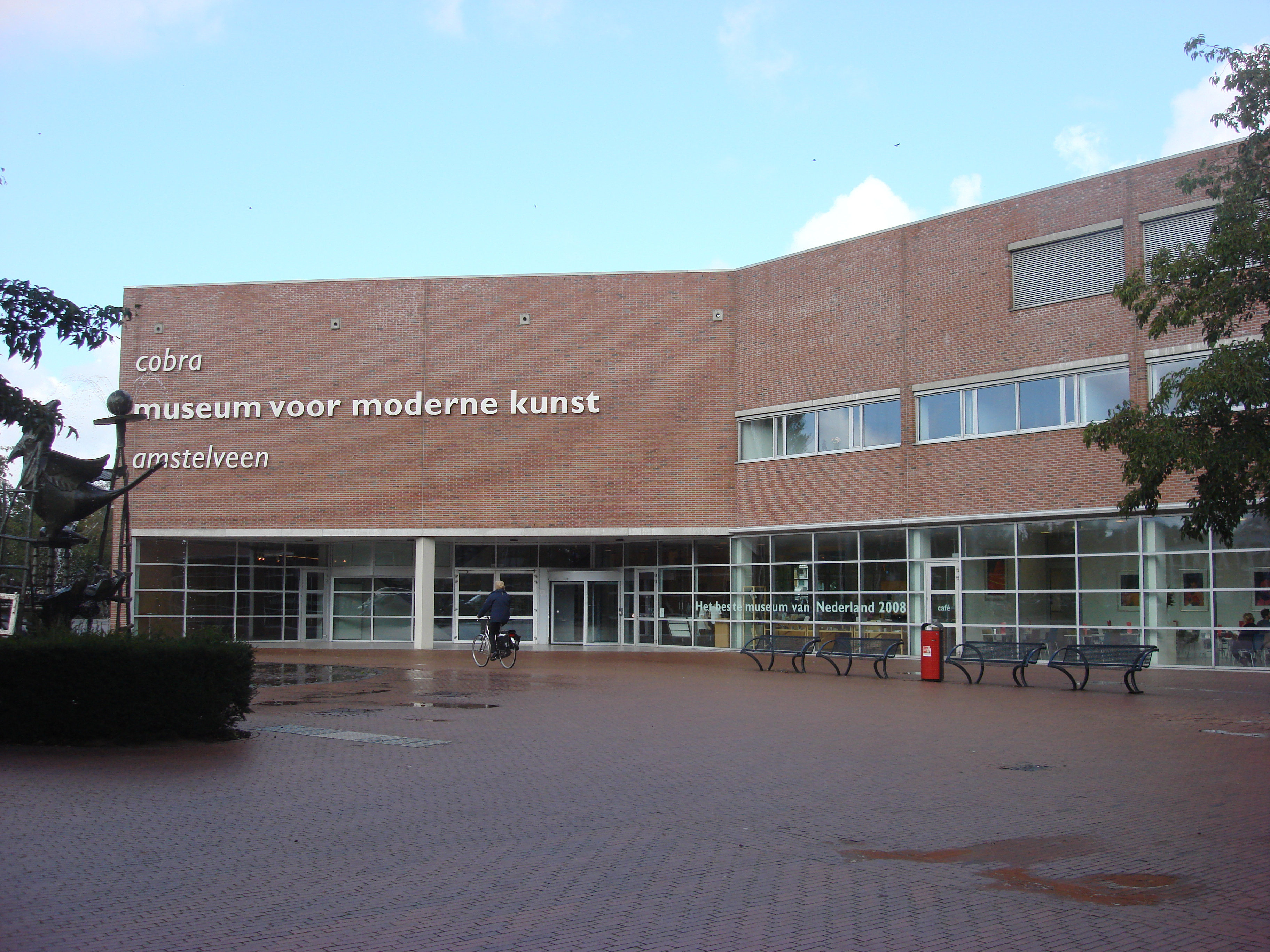 The 'Cobra museum voor moderne kunst' in Amstelveen.